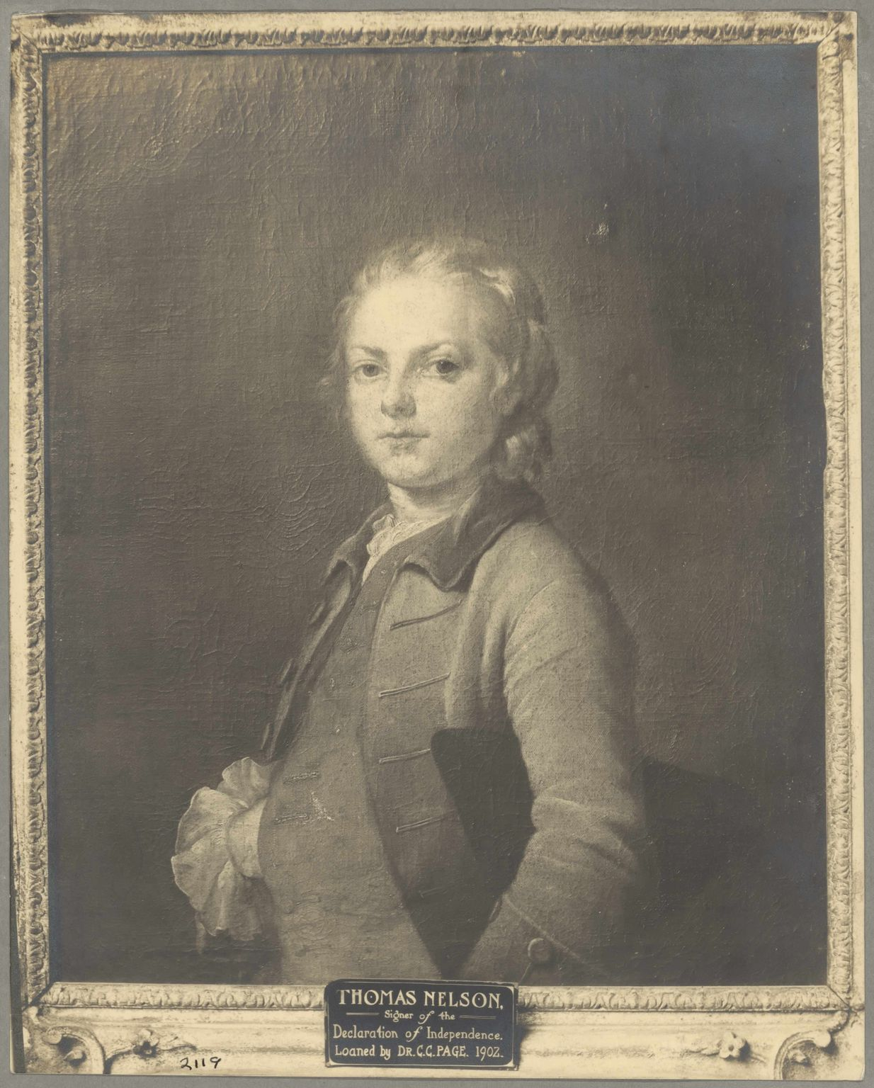 Title:Thomas Nelson. Author/Artist:Chamberlin, Mason, -1787 Creation Date:1754, when the subject was at either Hackney School or Cambridge University 29 1/2 x 24 3/8 in. 74.8 x 61.4 cm. oil on canvas. Provenance:(r) "Rosewell," Gloucester Co., Virginia; (r) Dr. Randolph Page, whose great-grandmother was Elizabeth Nelson, daughter of Thomas Nelson, who married Mann Page of "Shelly"; (r) left by Dr. Randolph Page to his son, Dr. Charles C. Page; (r) on loan in 1902 to the Virginia Historical Society, Richmond, Virginia; (r) presented by Dr. Charles C. Page to his brother, Dr. John Randolph Page, New York; (r) presented by him in 1954 to the Virginia Museum of Fine Arts, Richmond, Virginia. Current Repository:Virginia Museum of Fine Arts, Richmond, Virginia, United States, public.